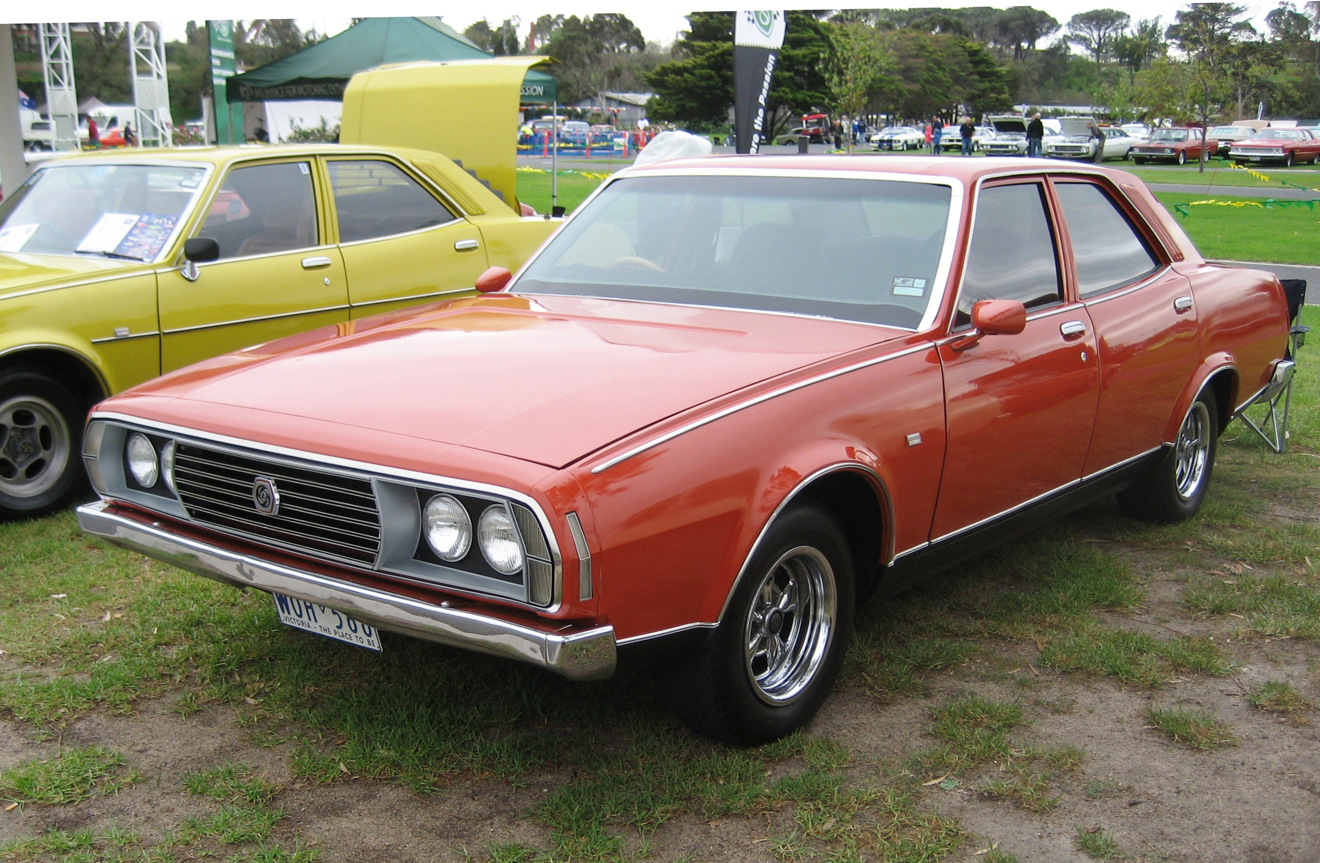 Leyland P76 Super Built from 1973-75 Engines; 2623 6 cyl or 4416 V8 Super got Bucket seats, console, woodgrain dash, 4 headlights etc over Deluxe This image was originally uploaded by wiki-user OSX under standard license creative commons 2.0. I have taken OSX's image and slightly cropped it in order to remove from the foreground two elements which I found distracting. These were (1) the adjacent car (appafently another P76) and (2) what appears to be the edging of a concrete sidewalk/pavement. I hope OSX, having seen what I did, will not feel I have traduced his original intentions with this. I am about to post him a message to this effect.